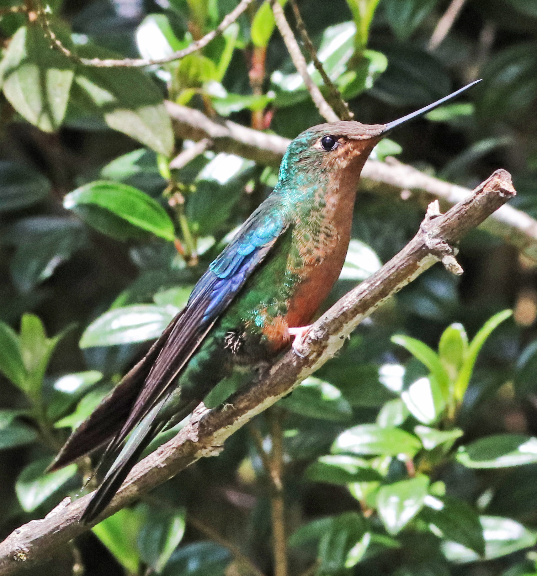 female Great Sapphirewing resting on a branch in Yanacocha Reserve, Ecuador